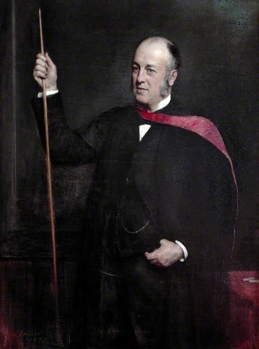 Portrait of :w:William Mitchell Banks} (1842–1904), Scottish surgeon.